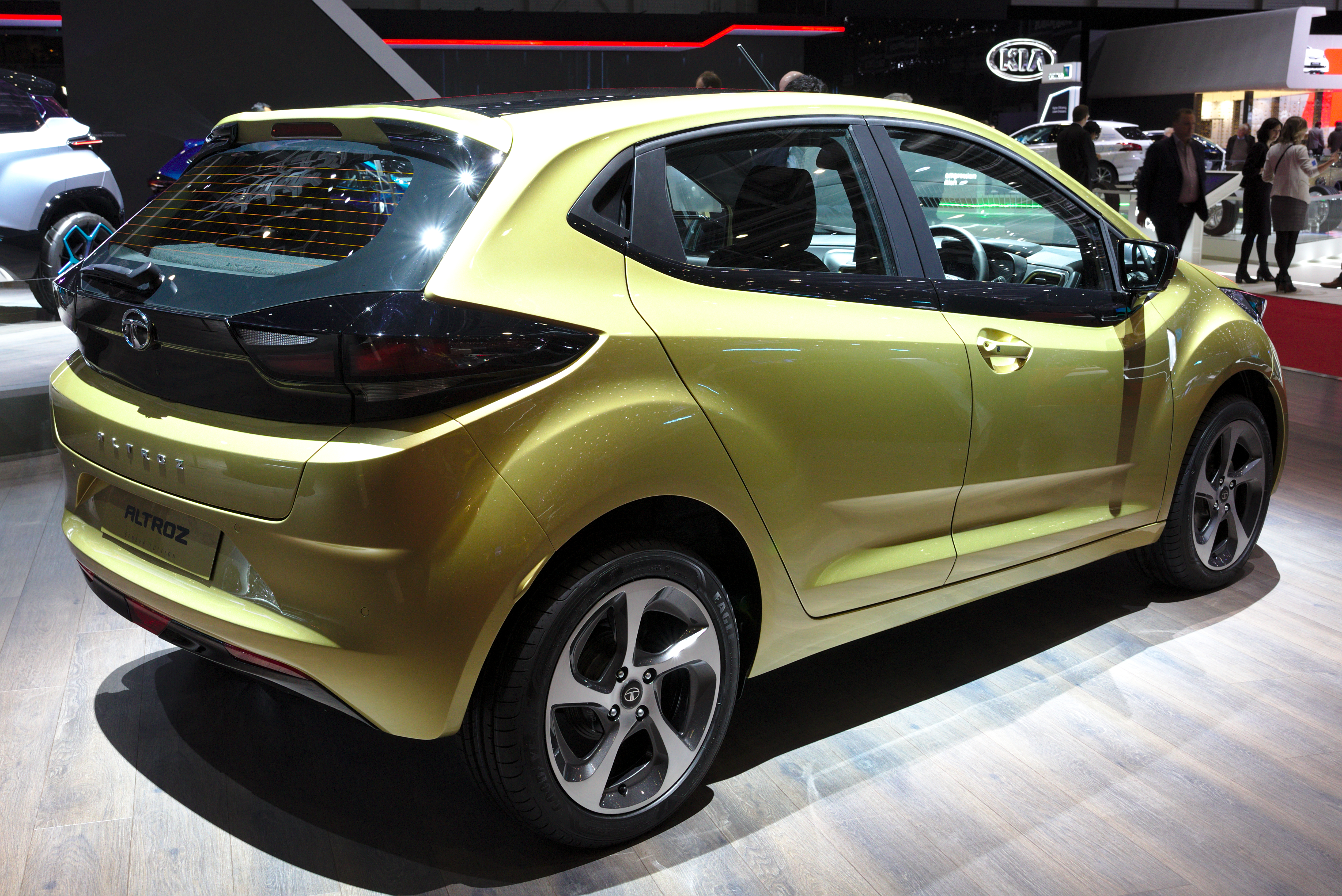 Tata Altroz at Geneva Motor Show 2019